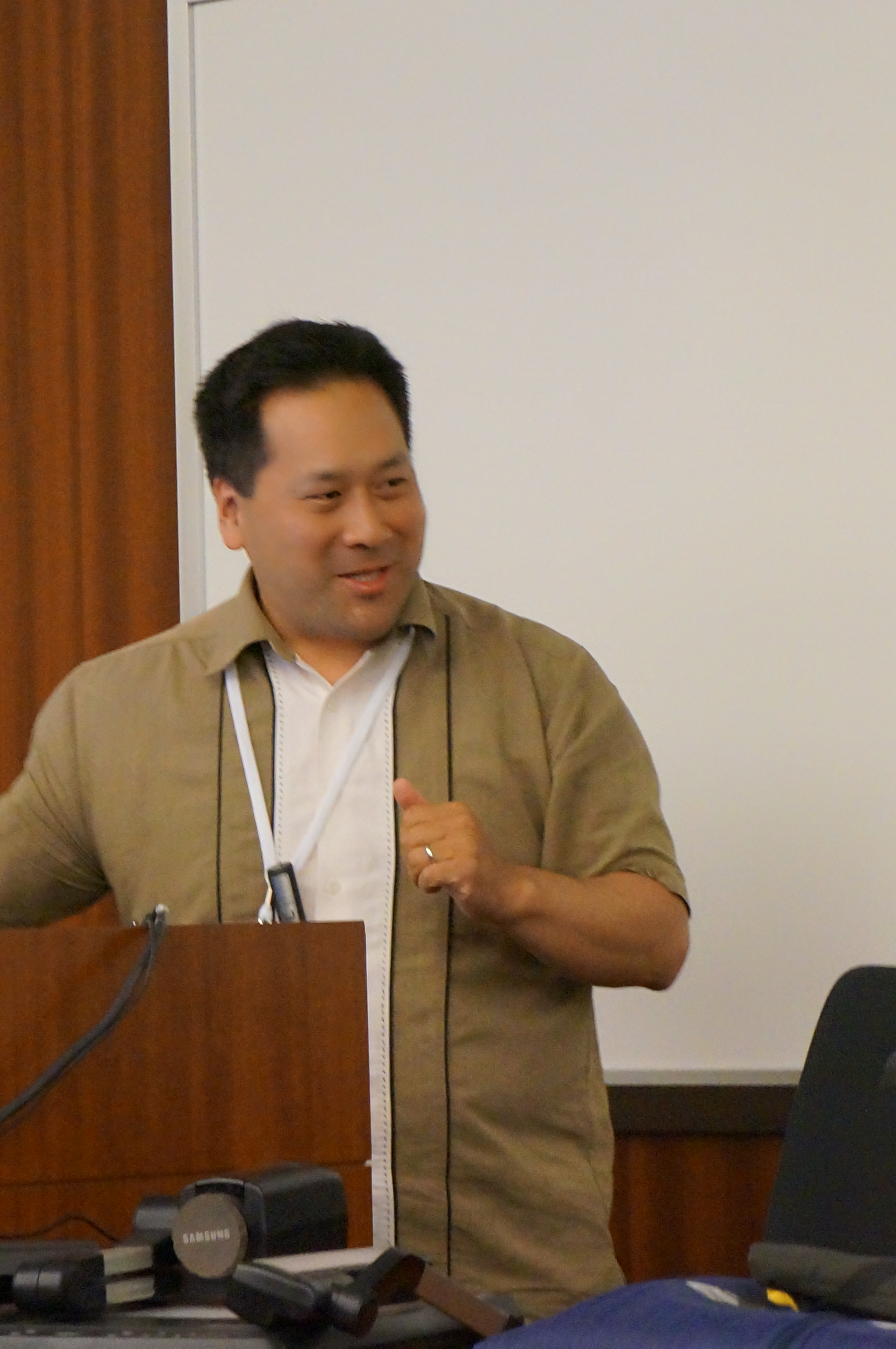 Andrew Lih, at the WikiConference USA 2014